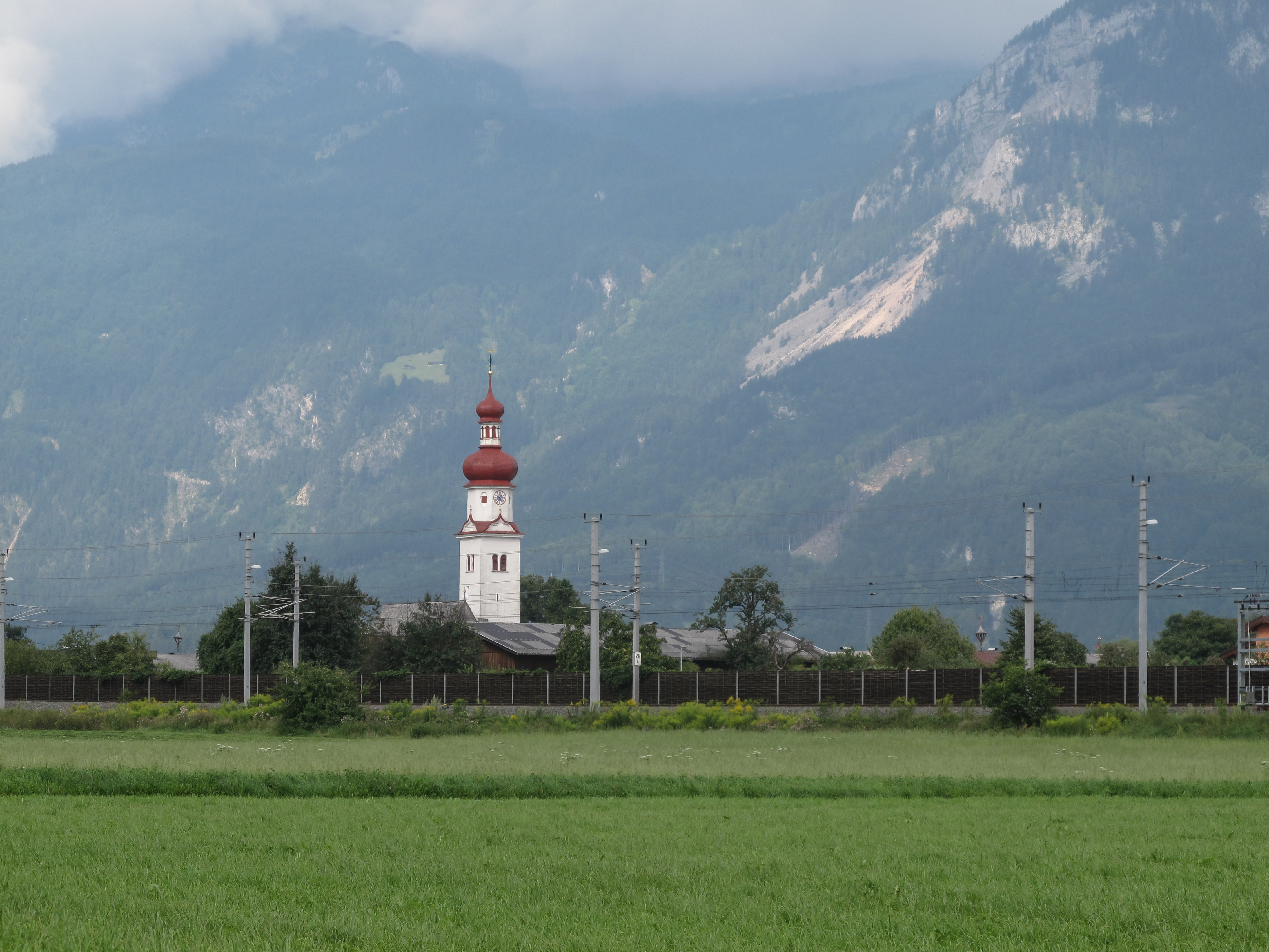 Radfeld, panorama from the village